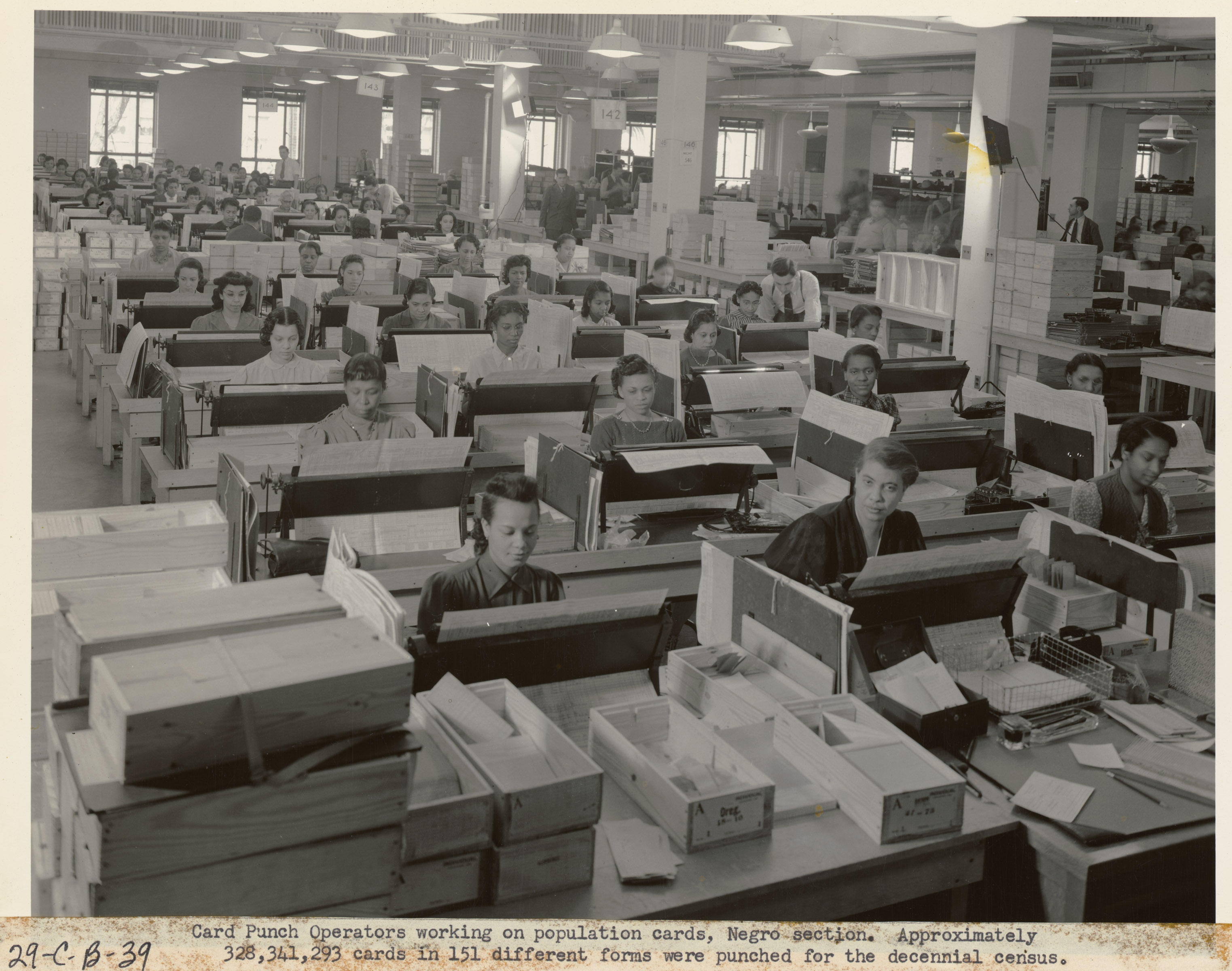 Card punch operators working on population cards, Negro section. Approximately 348,341,293 cards in 151 different forms were punched for the decennial census. 29-C-B-39